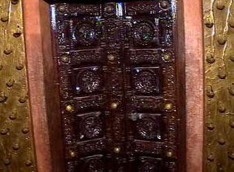 I took this photograph hallo i'm ...